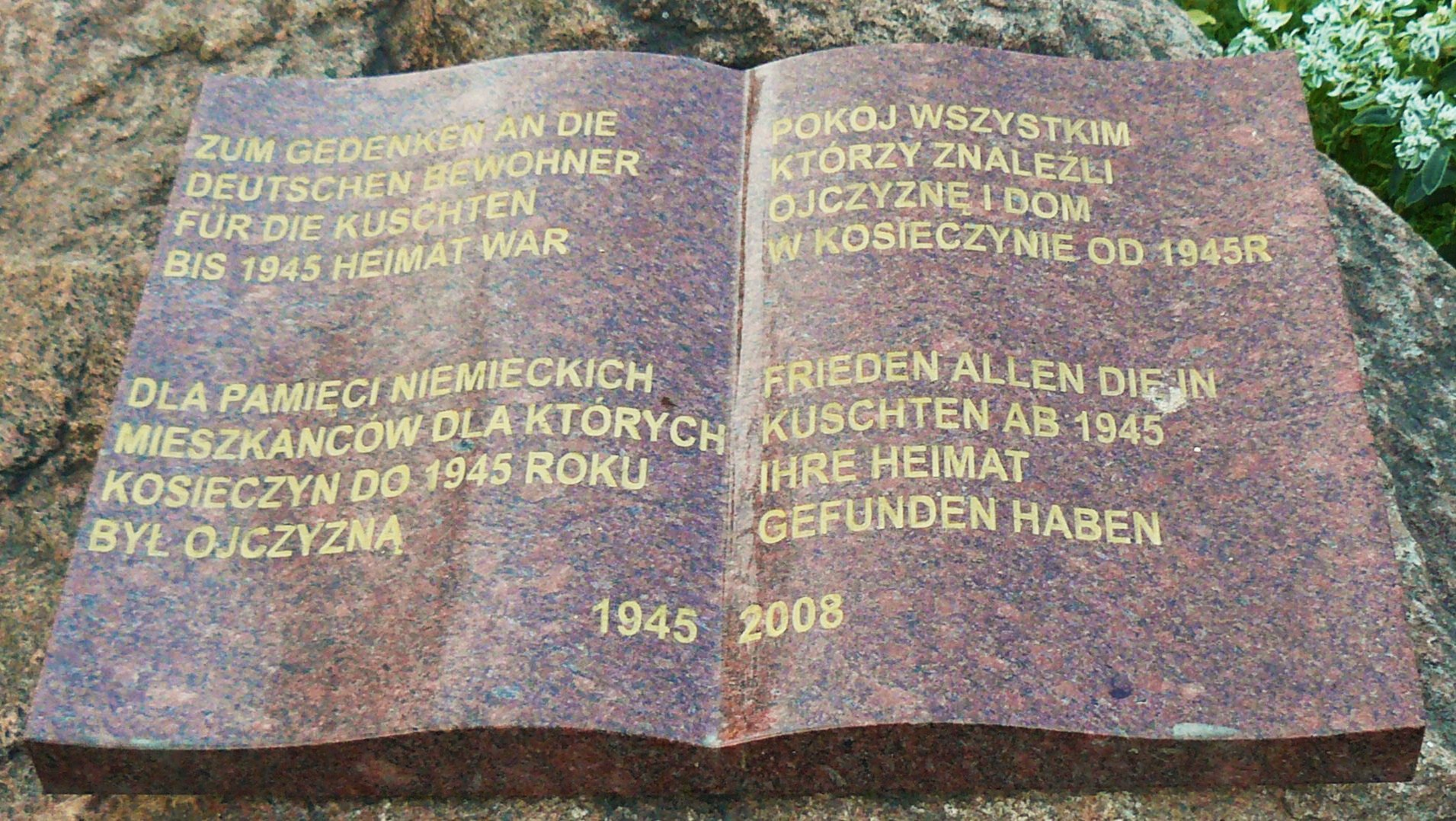 Polish/Germaine plaque in Kosieczyn